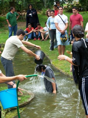 Baptism of freshmen in portuguese praxe.